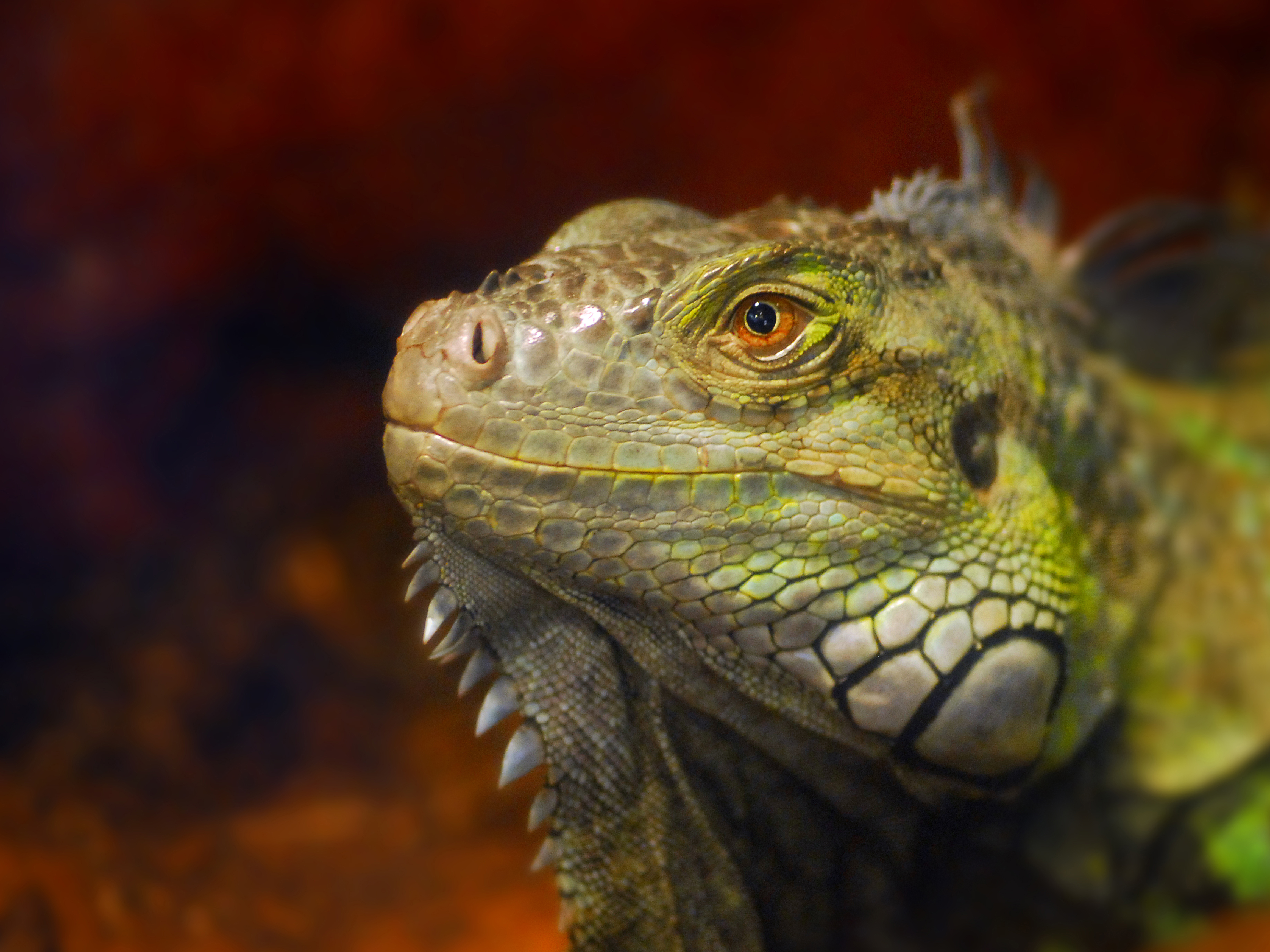 Green Iguana at Ponce Inlet Marine Science Center.